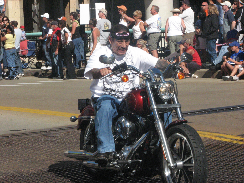 All pictures were taken in downtown milwaukee during the 105th Harley Davidson Anniversary parade. All pictures were taken in downtown milwaukee during the 105th Harley Davidson Anniversary parade.